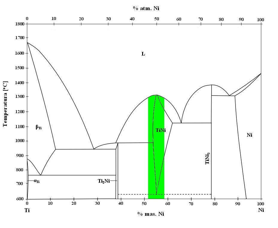 Binary phase diagram of NiTi with nitinol's range.Attention: Diagram have illustrative and educational value. Some of the points and temperatures ​​over time may change due to the use better equipment and get much more pure alloys. Diagram made ​​on the basis of numerous dates from the literature in Polish and English language.